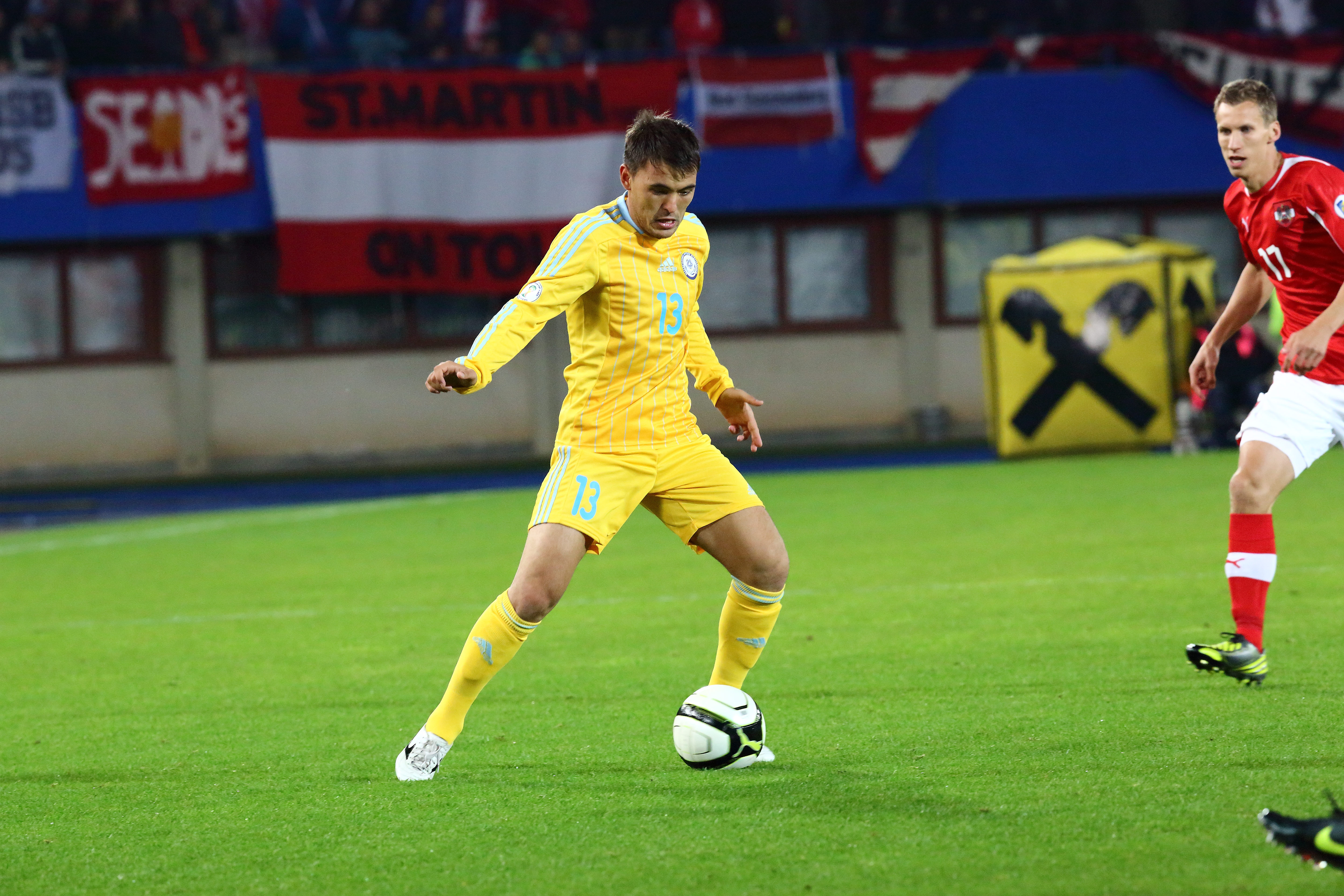 Azat Nurgaliyev at the very first minutes of the Match Austria-Kazakhstan on October 16th 2012.